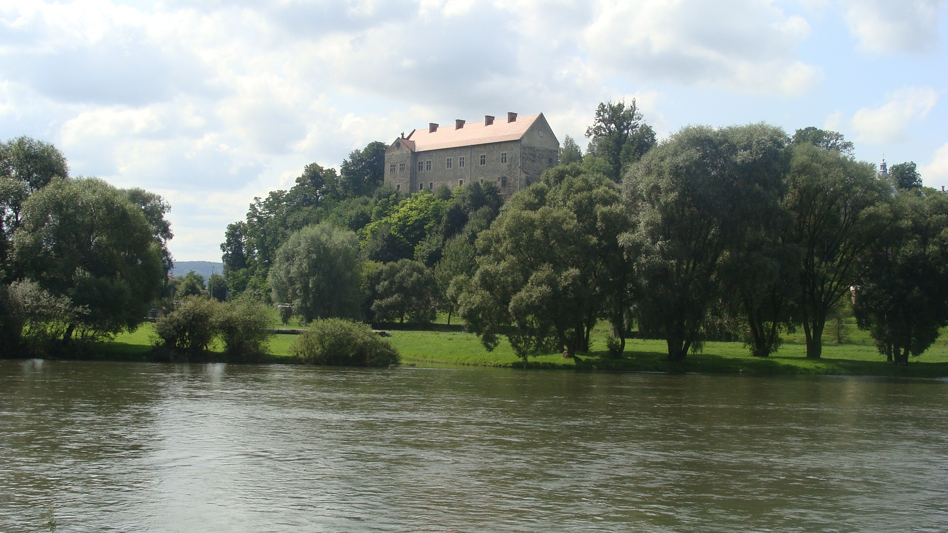 Castle of Sanok. 15th. c.